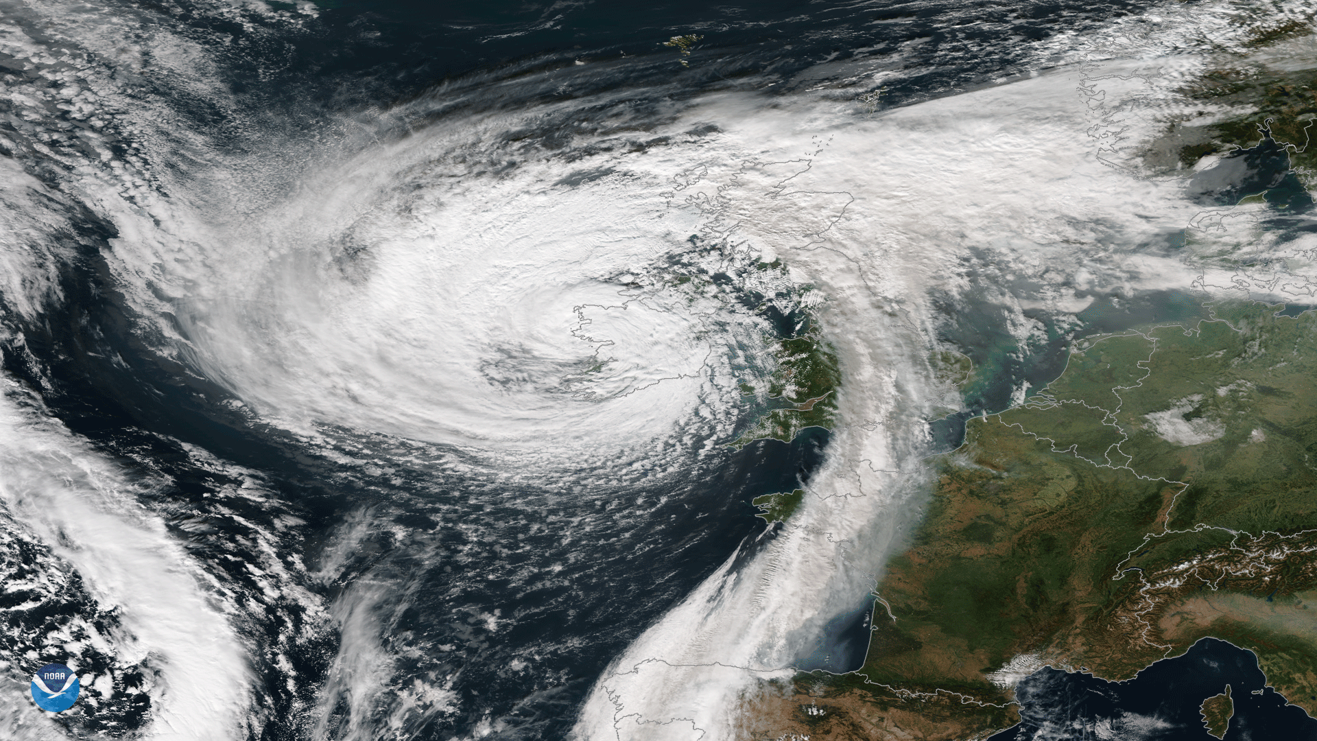 The Visible Infrared Imaging Radiometer Suite (VIIRS) instrument aboard the NOAA/NASA Suomi NPP satellite captured this image of post tropical cyclone Ophelia as it struck Ireland on October 16, 2017. As reported by various news outlets, so far three people have been killed by the storm and thousands of homes and businesses in Northern Ireland and the Republic of Ireland remain without power. Dumfries and Galloway took the brunt of winds which reached up to 77 mph (123 km/h).